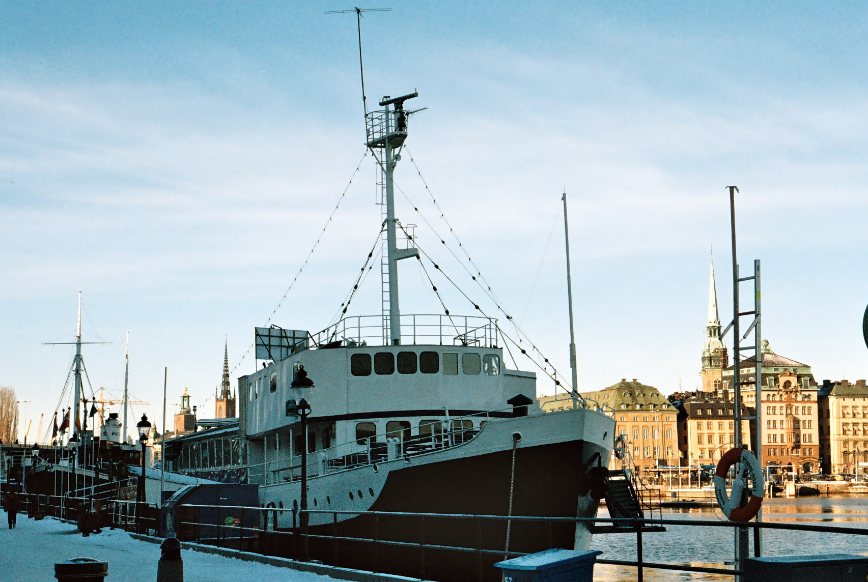 Former HMS Gustaf af Klint.